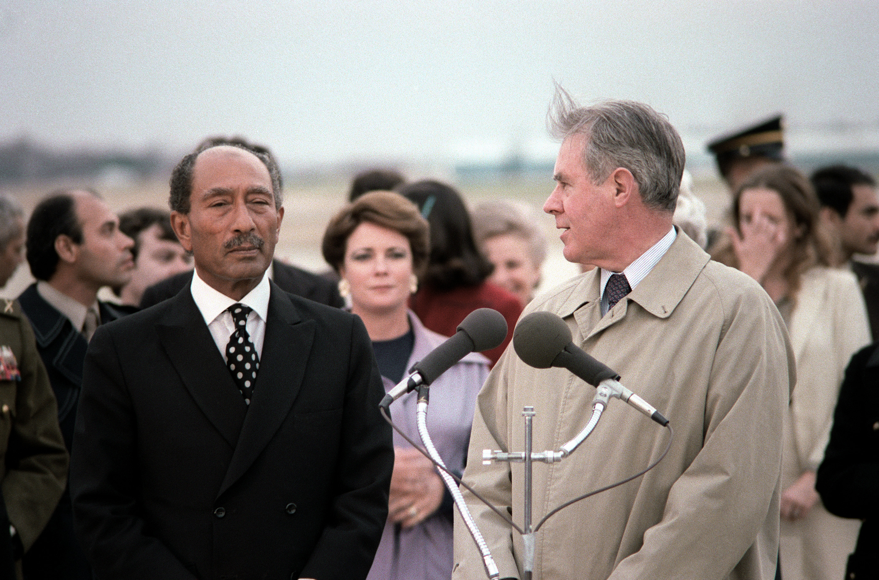 Secretary of State Cyrus Vance welcomes President Anwar Sadat of Egypt and members of his party upon their arrival in the United States for a visit. The woman in the background wearing mauve is Anwar Sadat's wife Jehan. Photograph taken at Andrews Air Force Base.